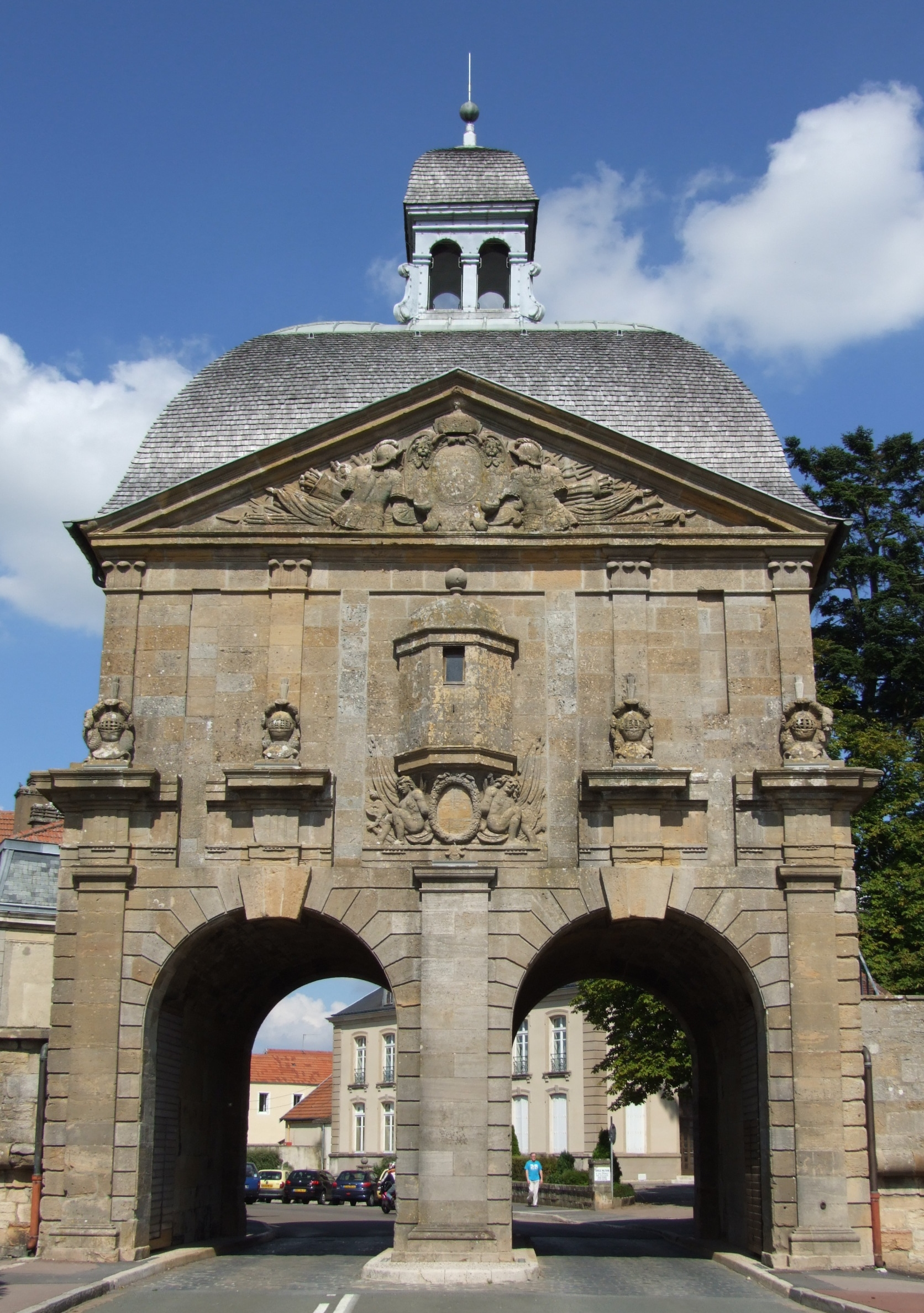 Langres, FRANCE